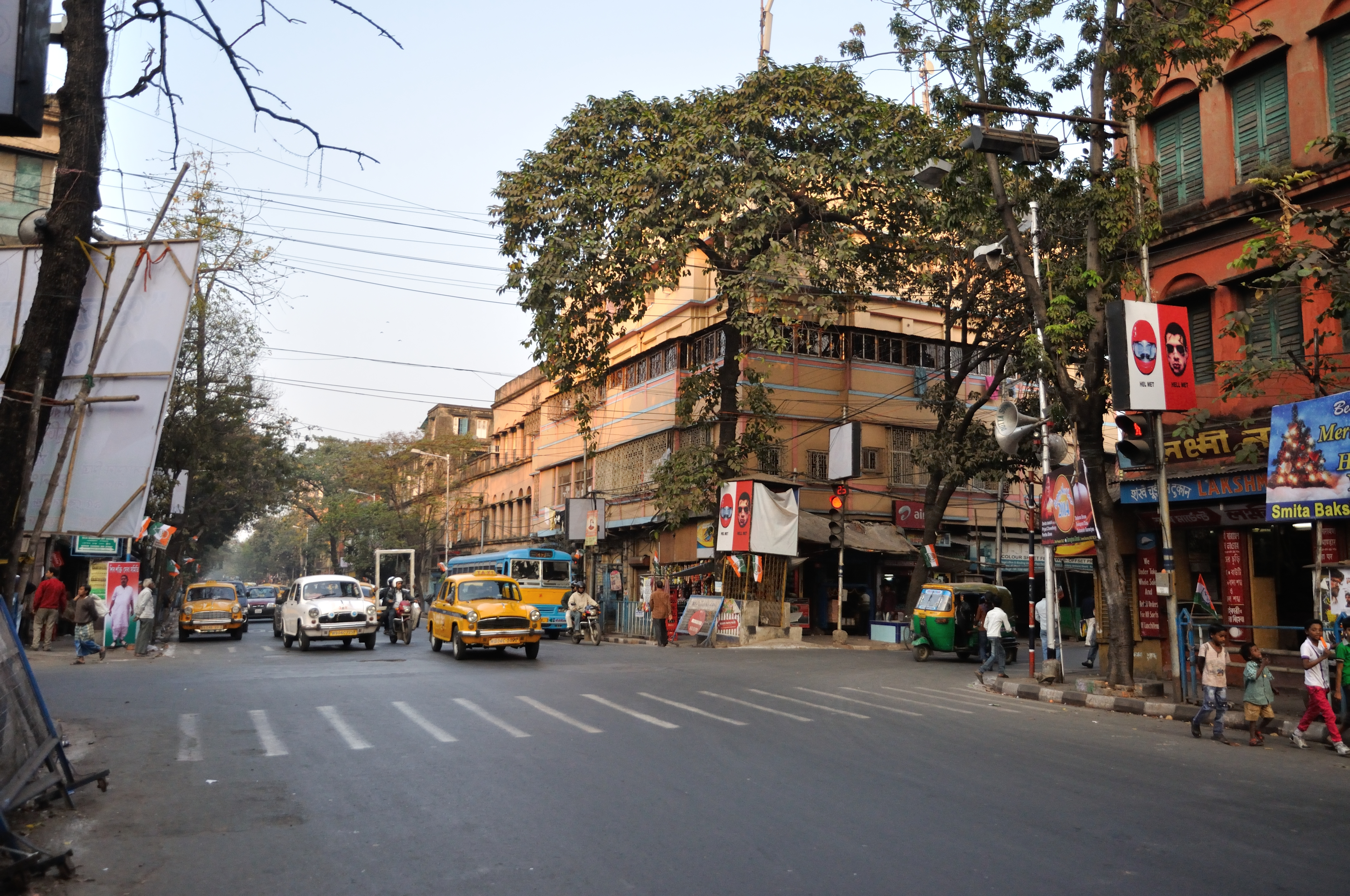 Photographed in Kolkata.